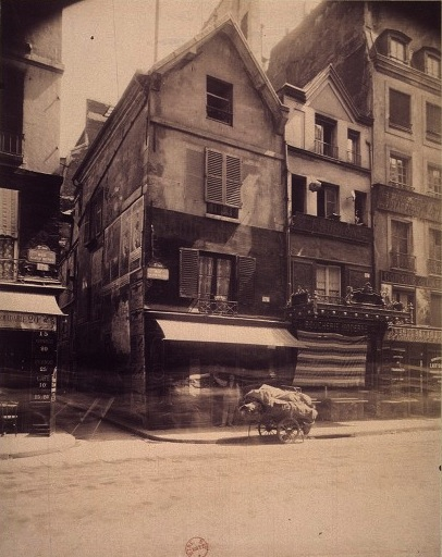 Middle-age houses at 174-176 rue St Denis (Paris, 2nd arr.)